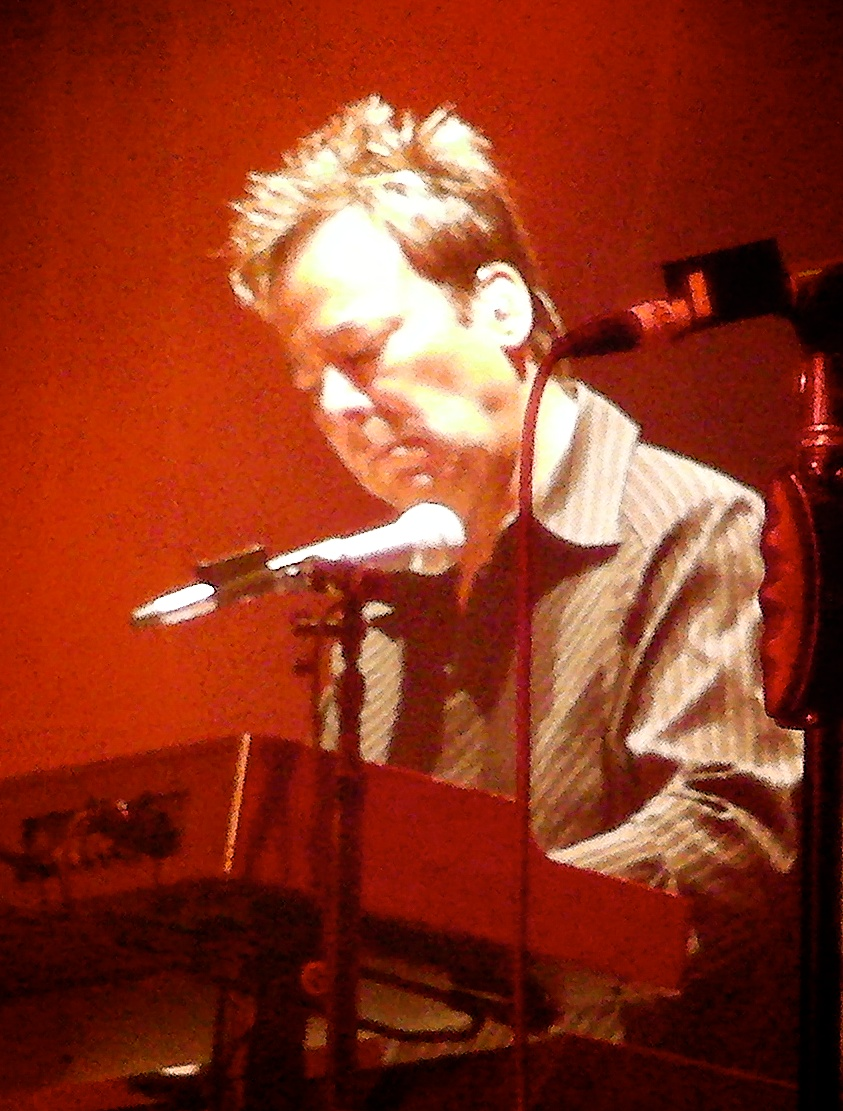 Photo of Lou Pardini, keyboardist of rock band Chicago, at a live concert at the Stiefel Theatre in Salina, Kansas, on April 22, 2013